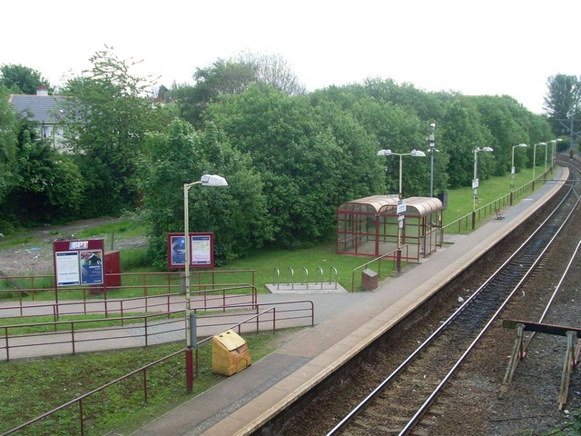 Corkerhill station From Corkerhill Road.